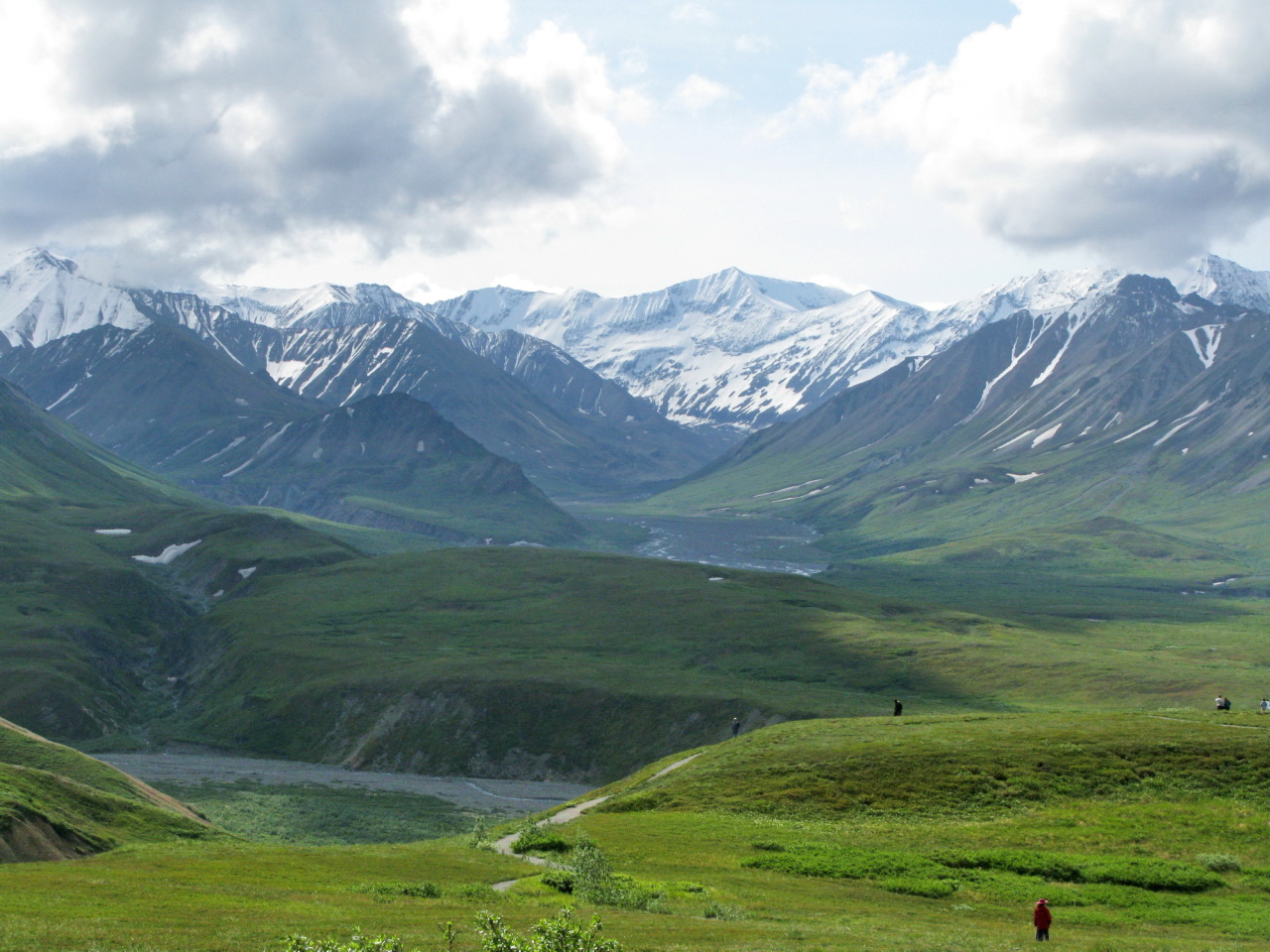 Sunset Glacier Valley at Eielson Visitor Center, Denali National Park, Alaska